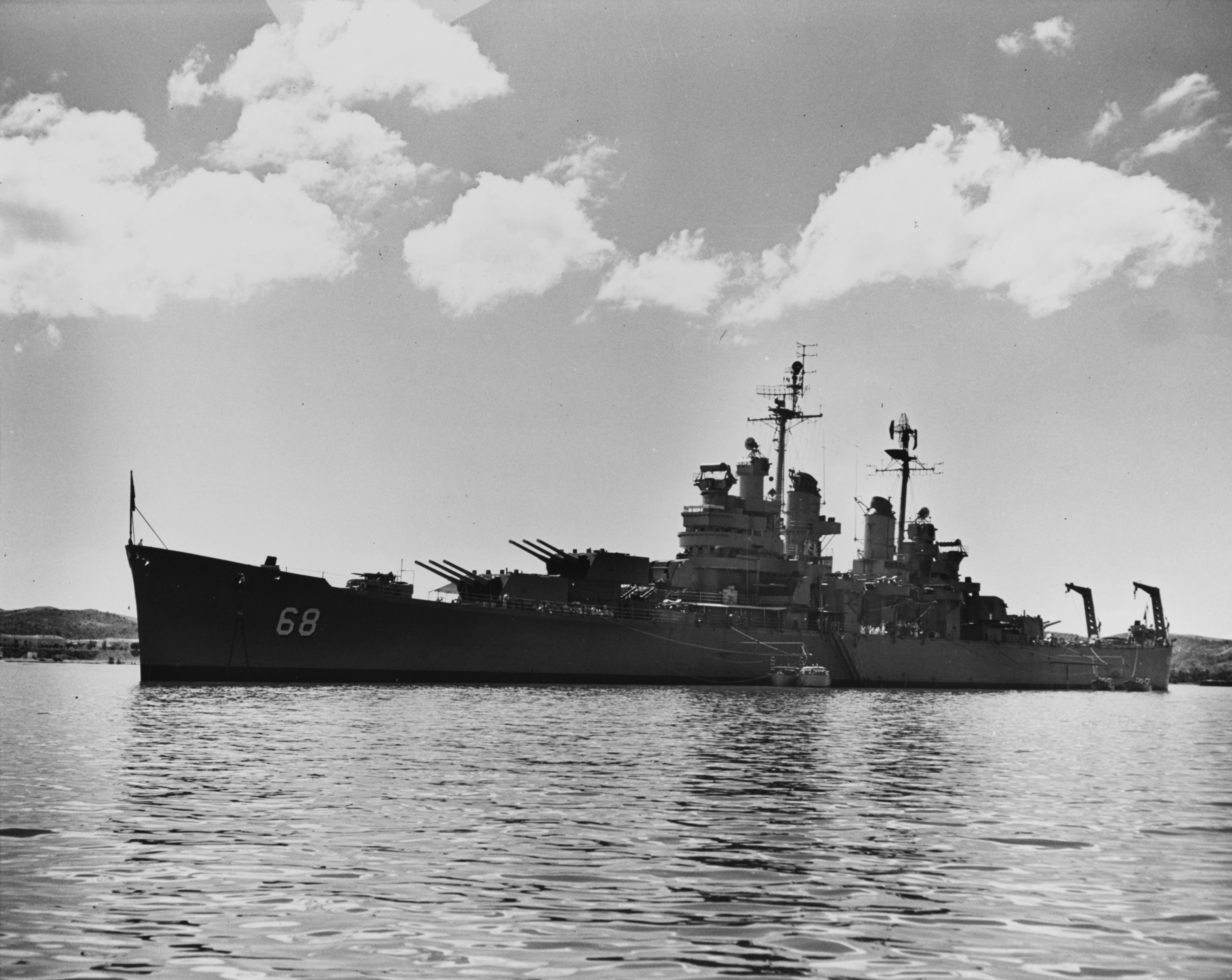 The U.S. Navy heavy cruiser USS Baltimore (CA-68) anchored in Guantanamo Bay, Cuba, on 22 September 1954.